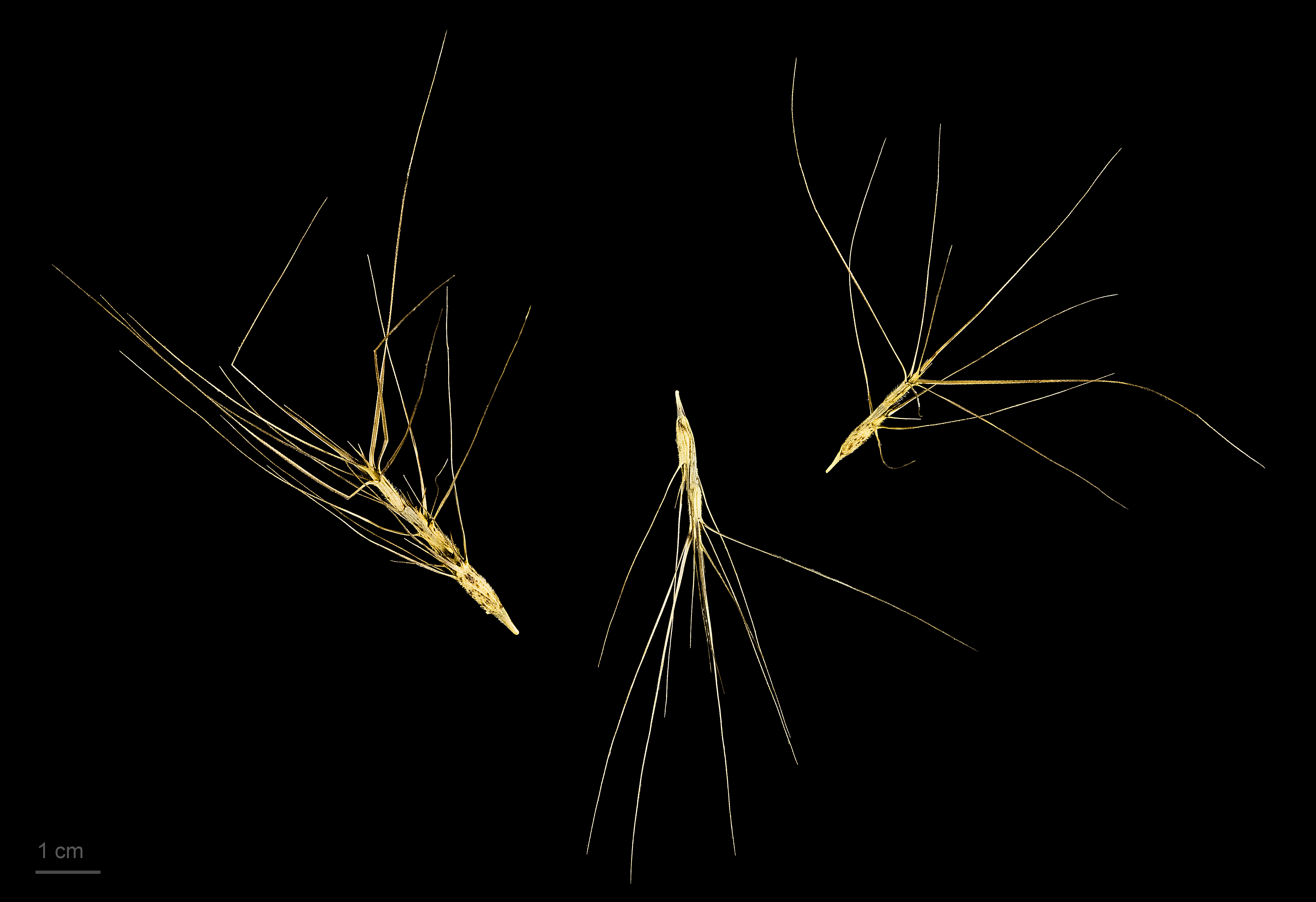 Barbed goatgrass , fruits and seeds